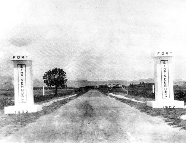 Fort Stotsenburg Gateposts Kapampangan: Ding pasbulasias ning Fort Stotsenburg, inyang mayayakit la inyang pilatan ning 1919-1941.